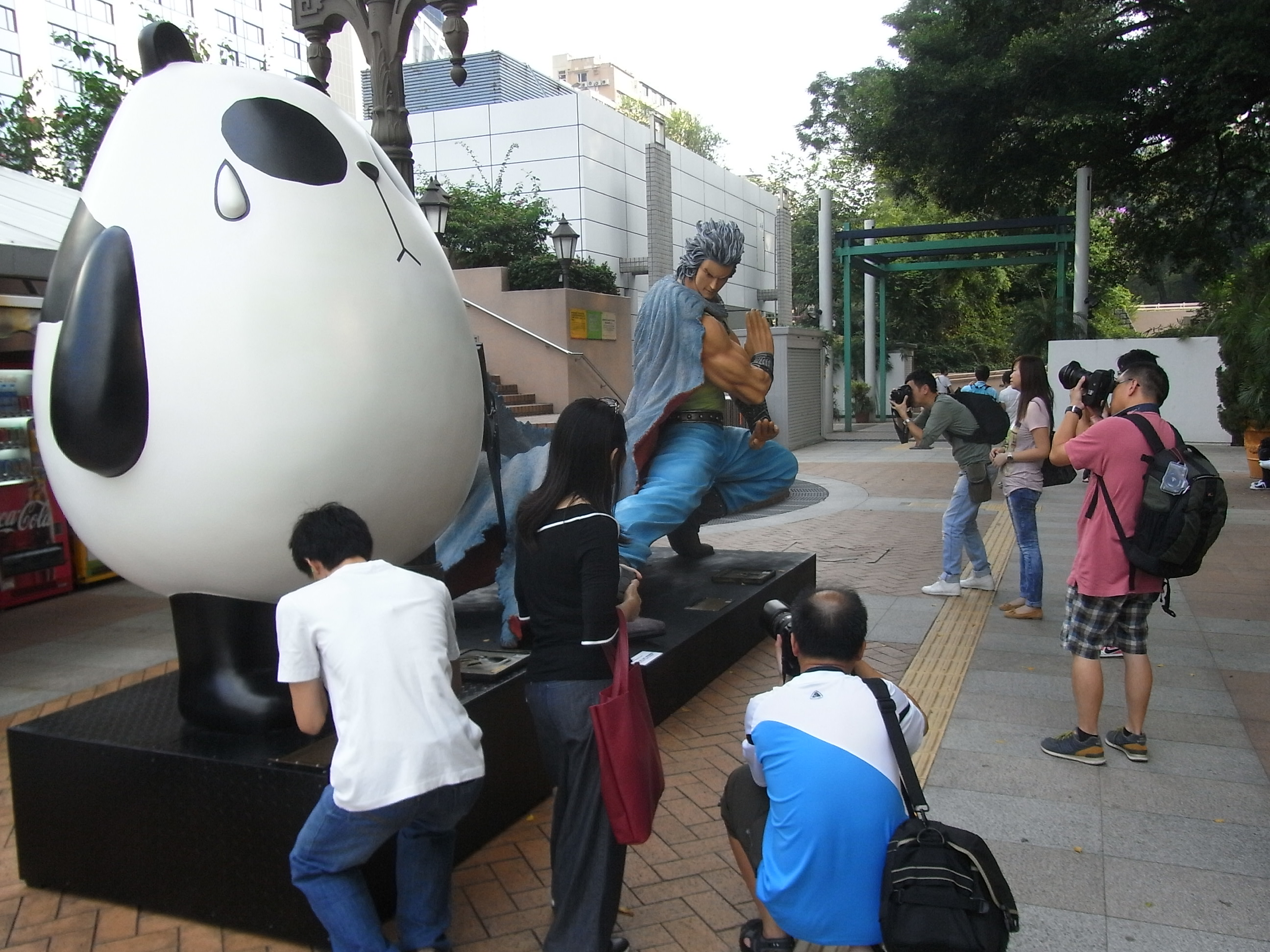 香港漫畫星光大道 蔣子軒, Hong Kong Avenue of Comic Stars, Kowloon Park, Nathan Road, Tsim Sha Tsui, Hong Kong